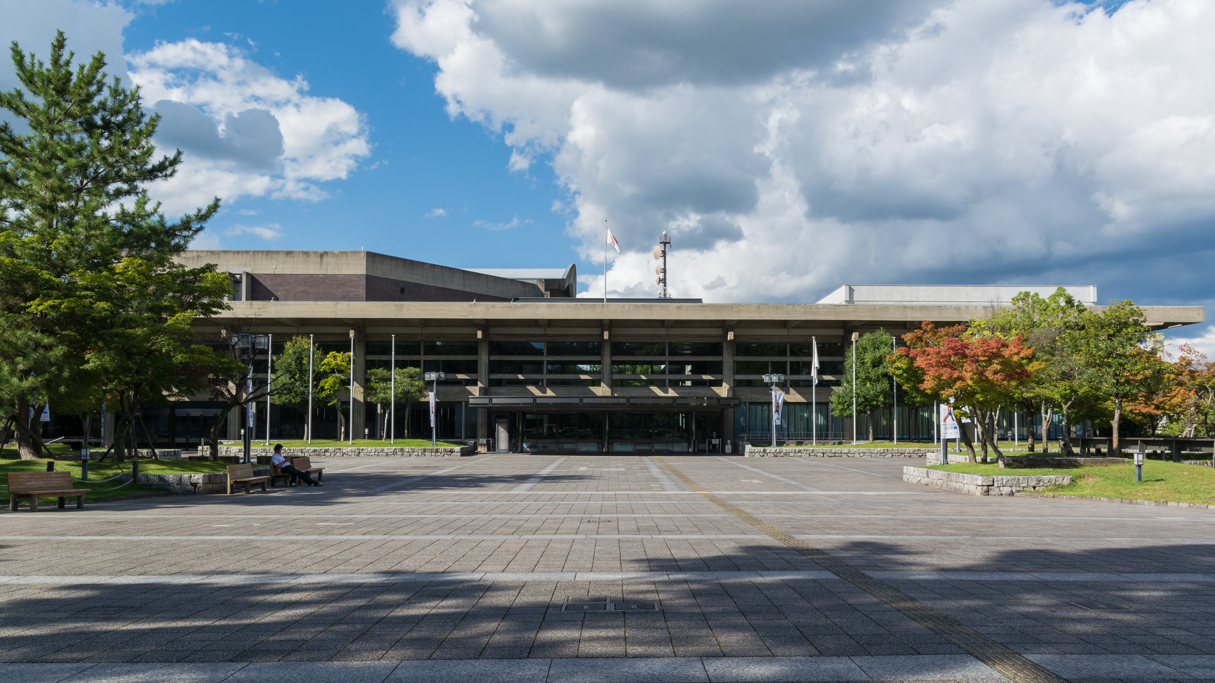 Nara Prefectural Cultural Hall in Nara, Nara Prefecture